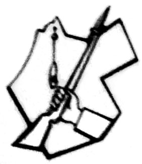 Logo of Irgoun. Detail of a photograph of plaque next to location of the Etzel (אצ"ל) headquarters, Suzanne Dellal center, Neve Tzedek, Tel Aviv, Israel.